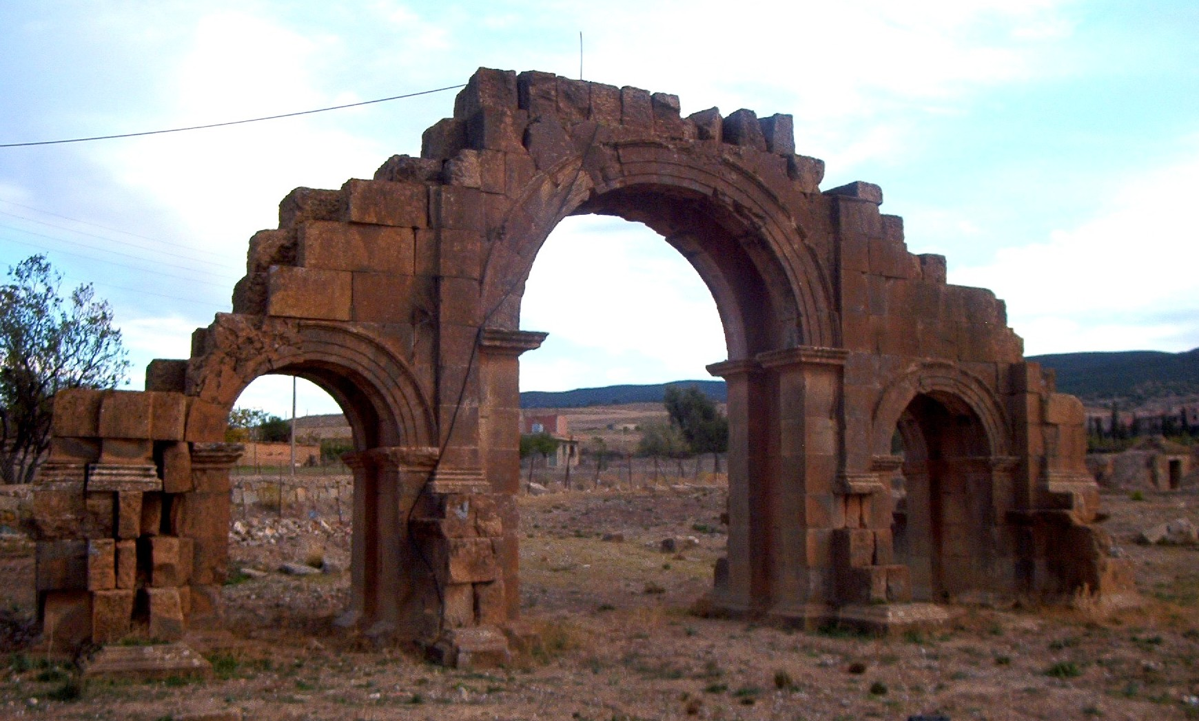 Ancient Roman Arch of Septimius Severus — Lambaesis, Algeria.